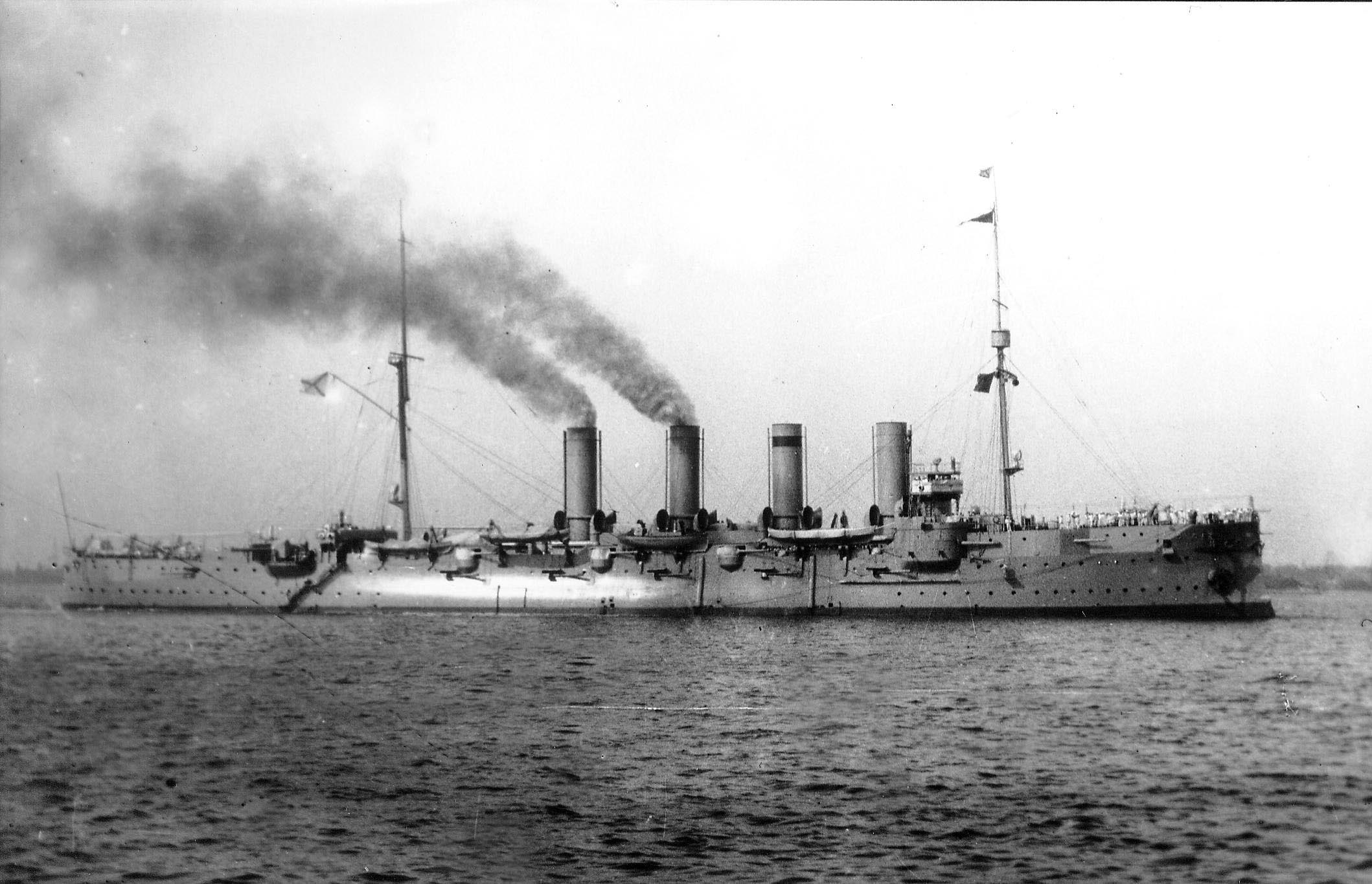 Imperial Russian cruiser Rossiya.